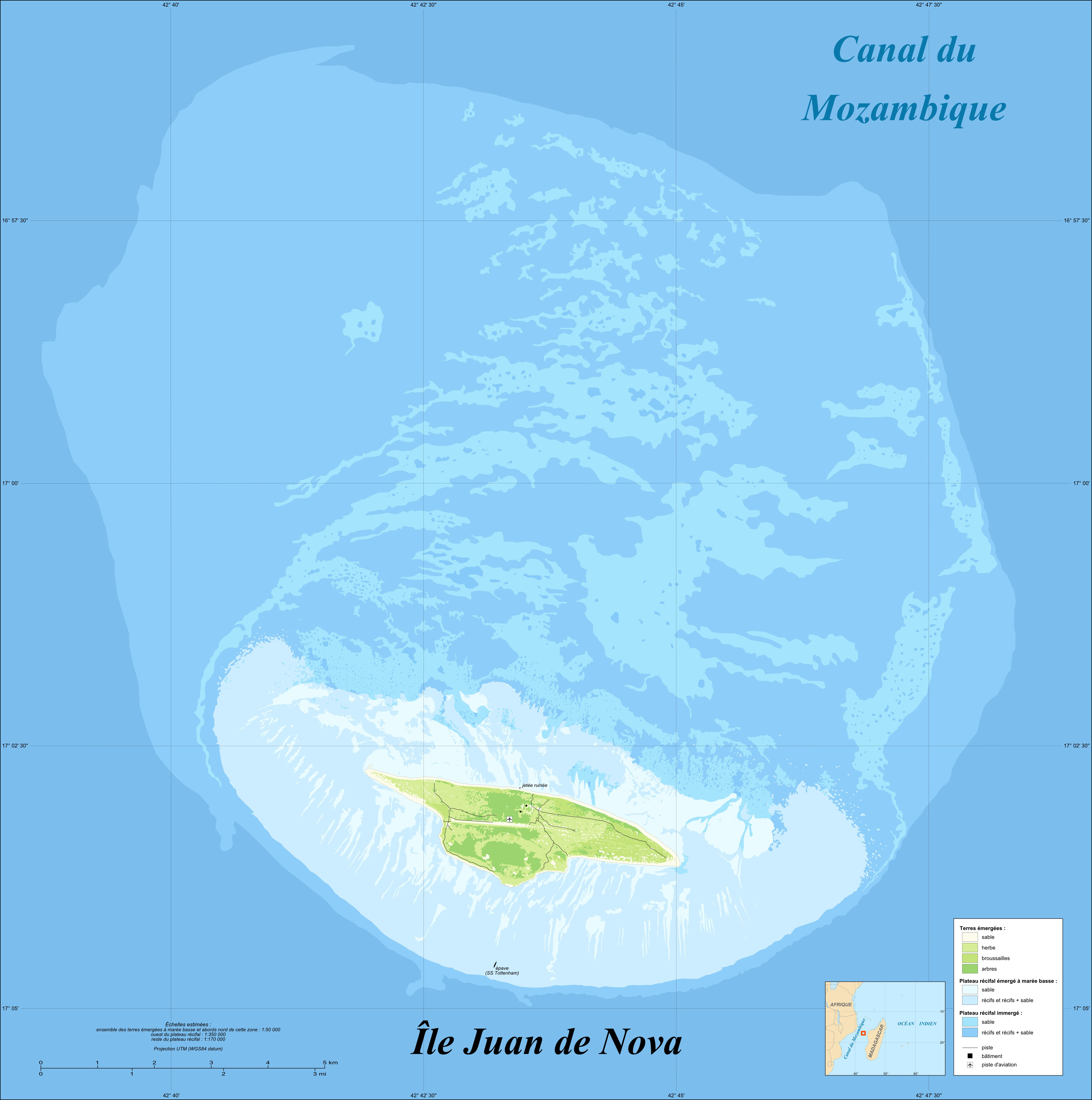 Map in French with the land cover of the French Island of Juan de Nova and its reef, Scattered islands in the Indian Ocean. UTM projection, WGS84 datum Precision chart of the map Estimated scales (see details on the precision chart of the map) : whole raised zone at low tide and north surroundings of this area : 1:50,000 west of the reef : 1:350,000 other parts of the reef: 1:170,000 Notes: The limits between the sandbanks and the areas of reefs + sand are approximated ; The location and shape of the sandbanks vary in time. The map represents them as in the years 2000 to 2002.